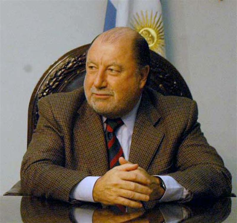 Gobernador Jorge Pedro Busti